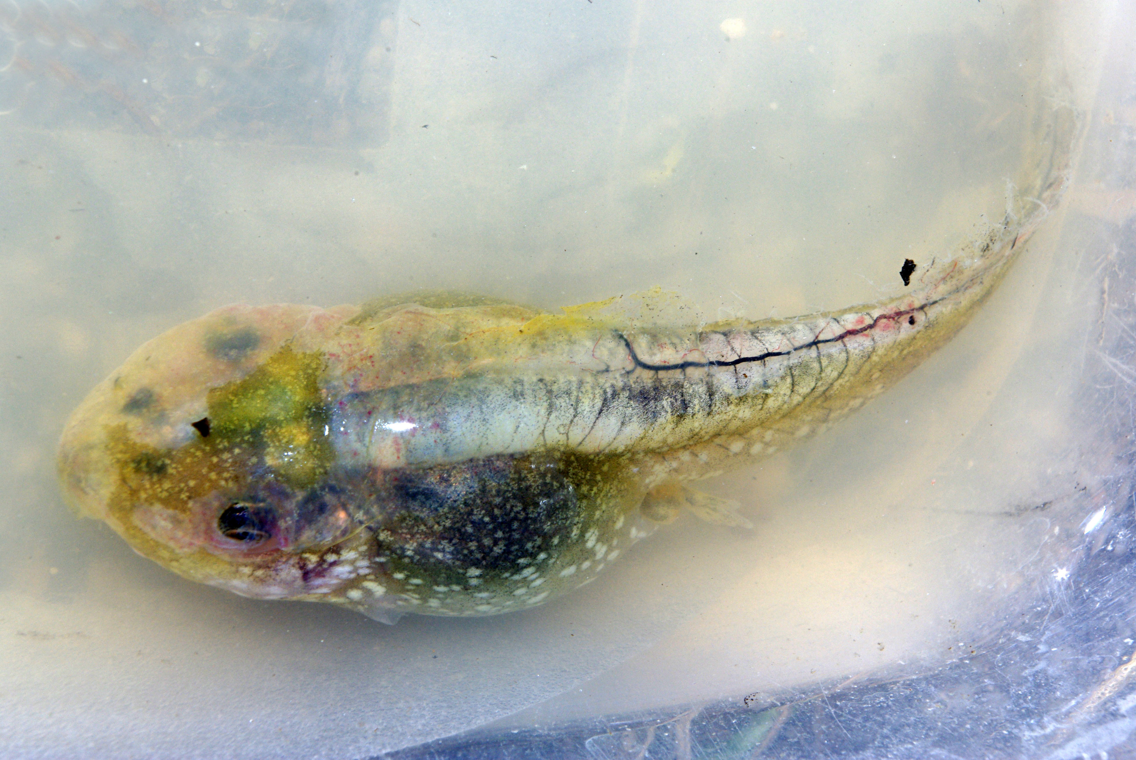 Tadpole of Western Spadefoot (Pelobates cultripes) in river Trabancos, near Pollos (Valladolid, Spain)